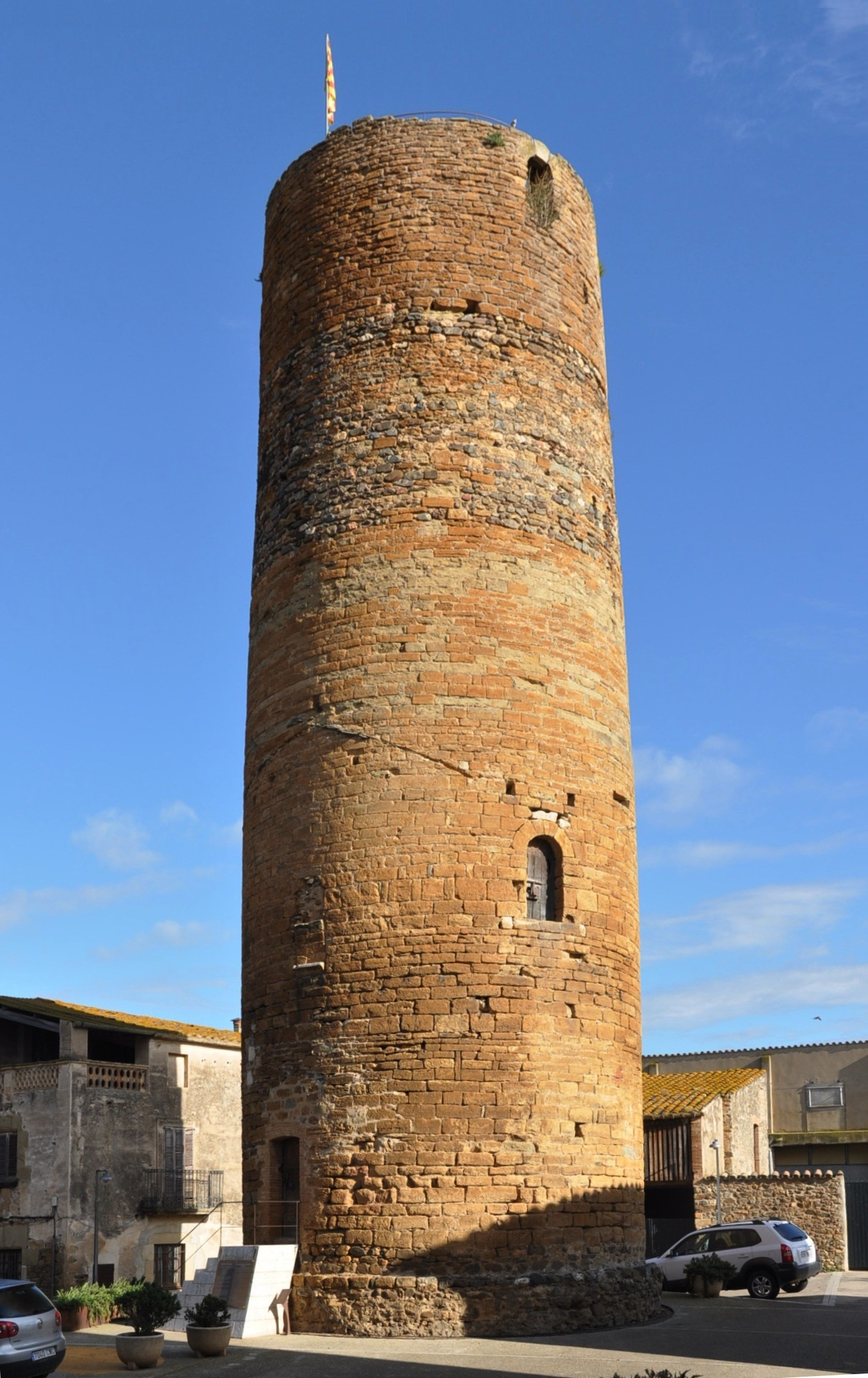 Medieval castle tower from the 11th-12th century on Cruïlles' main square (County of Baix Empordà, Catalonia, Spain). The fortified village of Cruïlles lies 2.8 km west of La Bisbal d'Empordà.